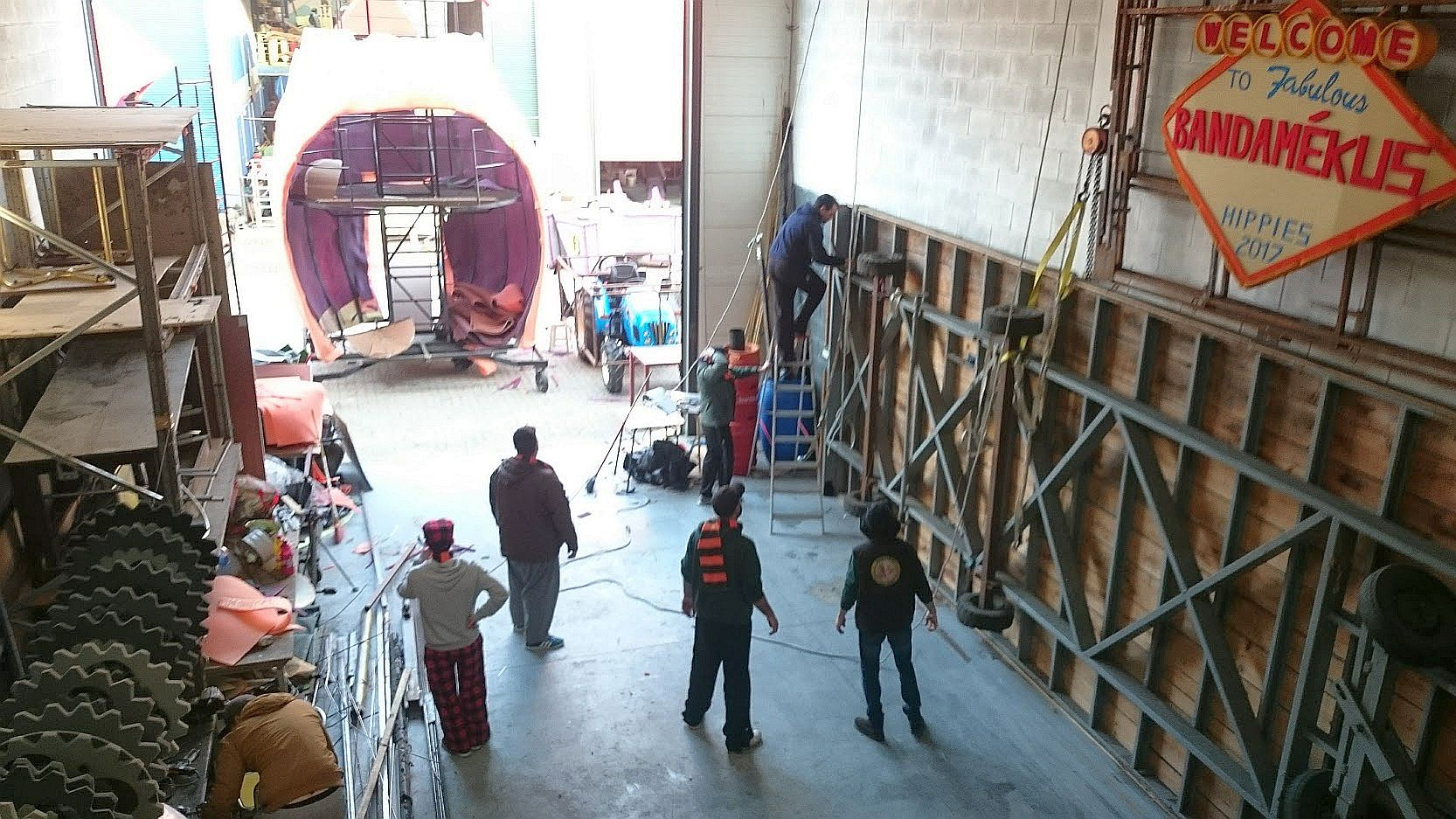 Inside of one of Carnaval de Ovar's Associations' Headquarters (Portugal)